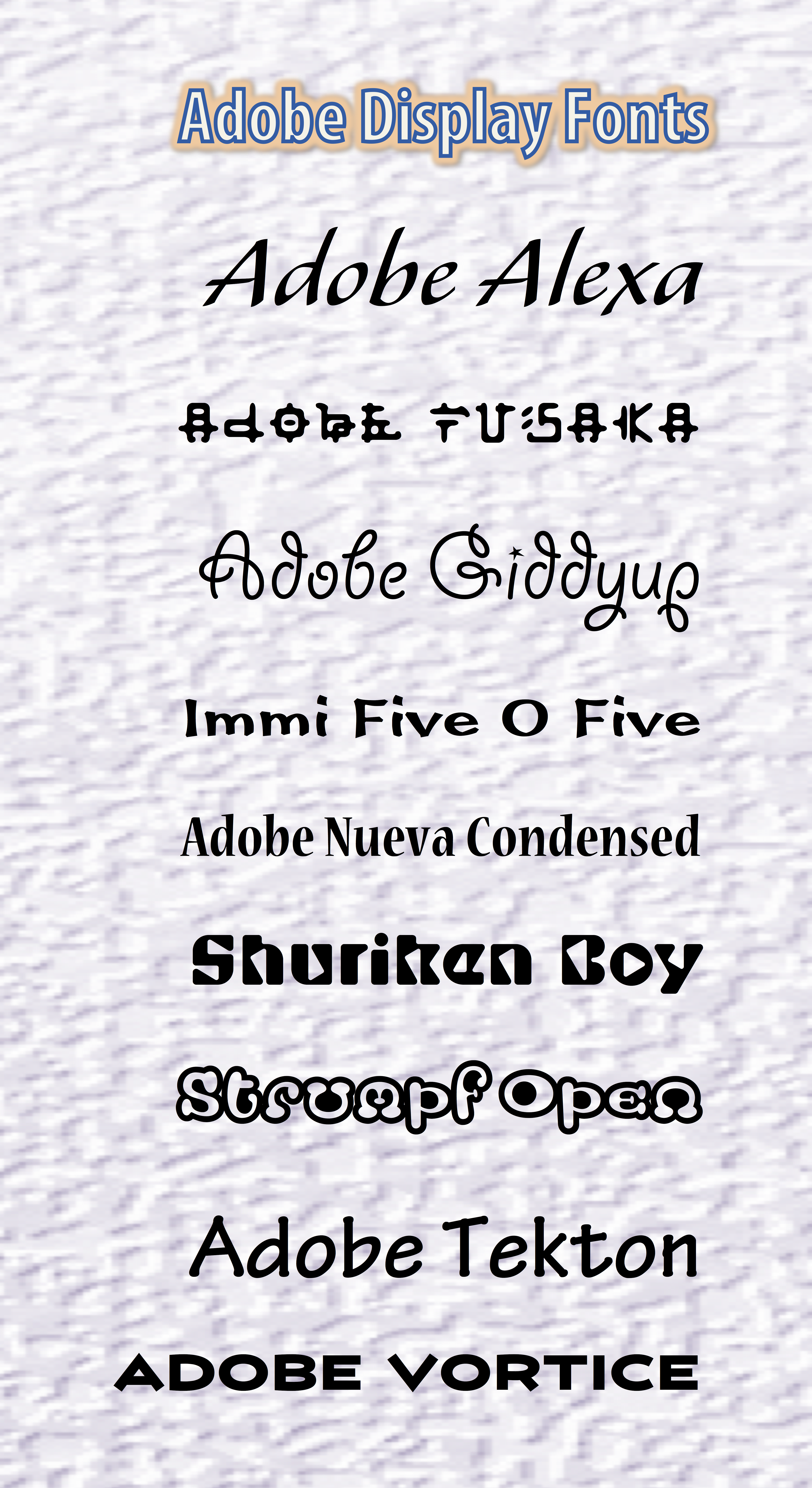 Adobe has published a wide range of display fonts that are hard to fit into a particular style, often influenced by the 1990s 'grunge typography' movement. A group are shown here, with some WordArt and edgy purple concrete textures to bring the 90s back as best I can.